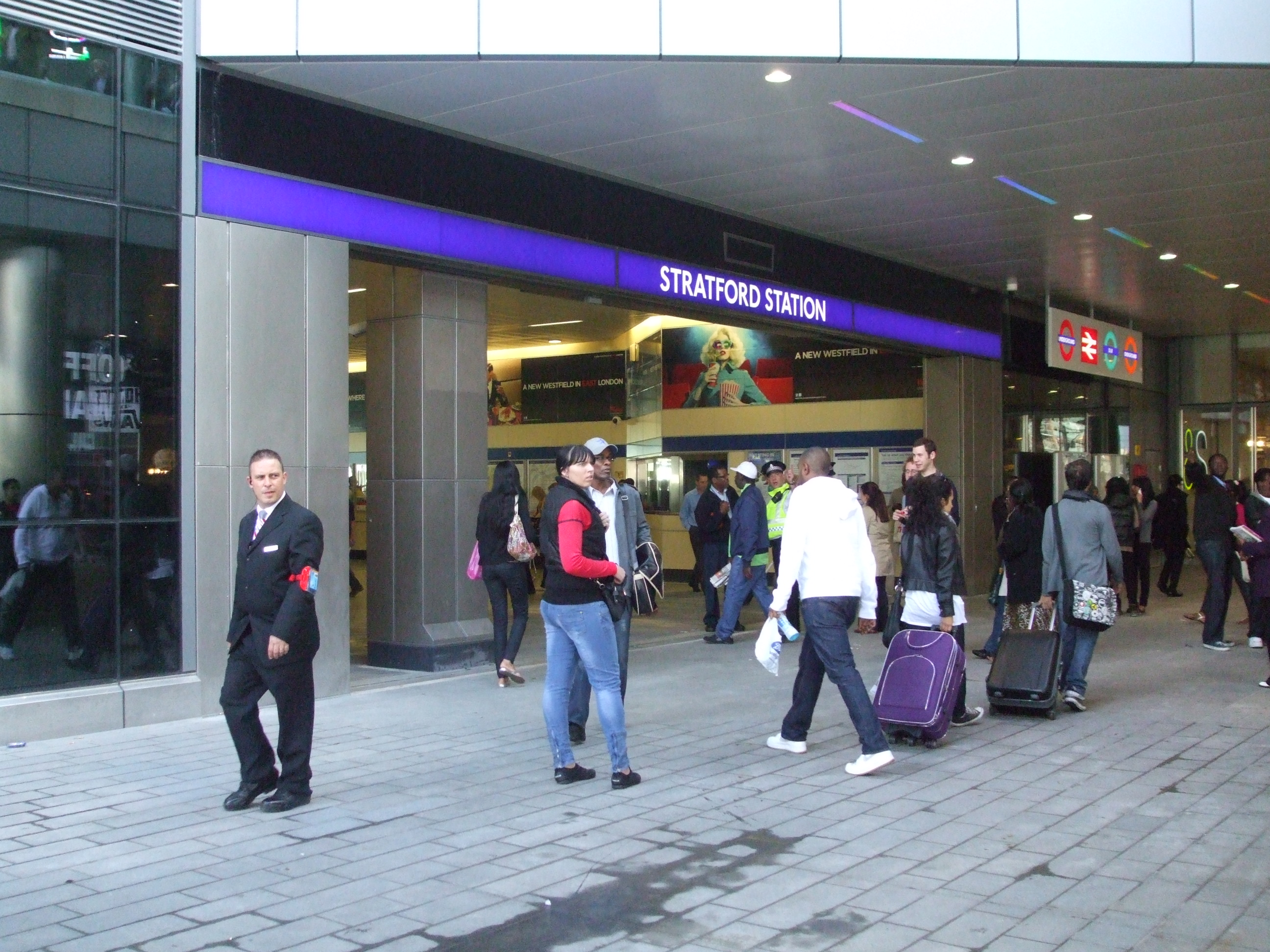 Stratford station new northern entrance, adjacent to the Westfield Shopping Centre in Stratford City. These opened in September 2011.